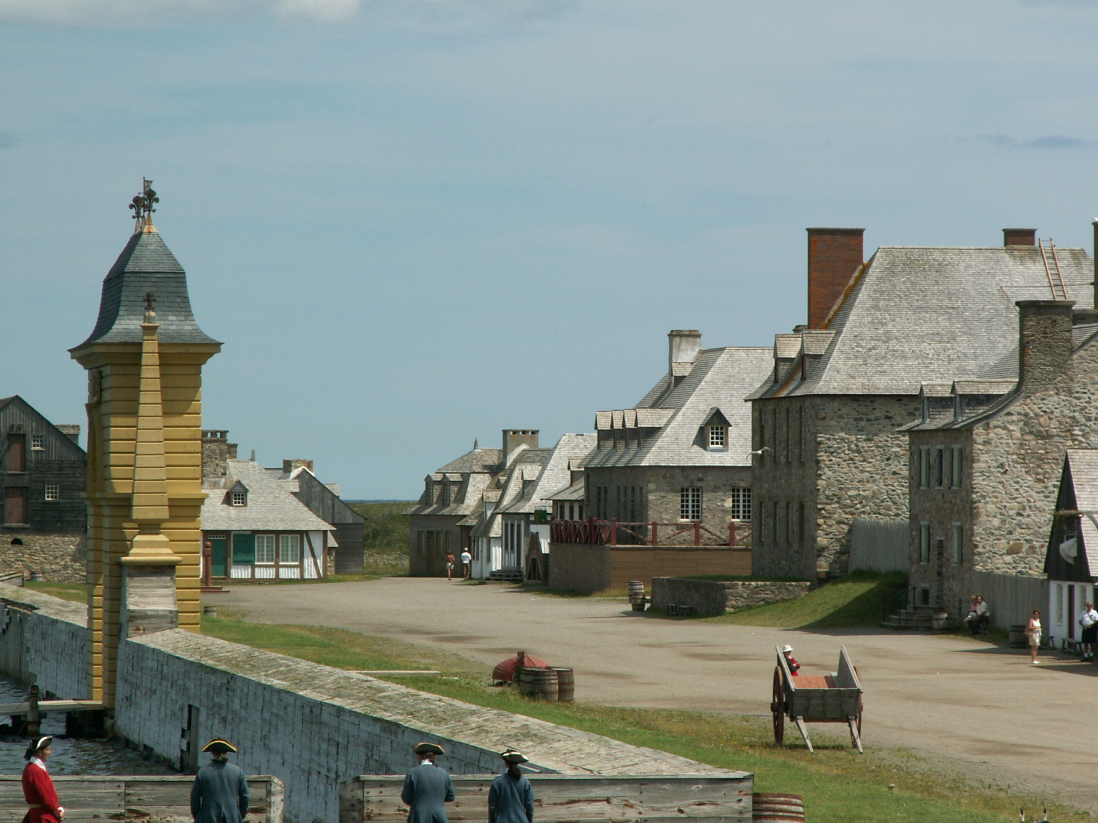 Louisbourg